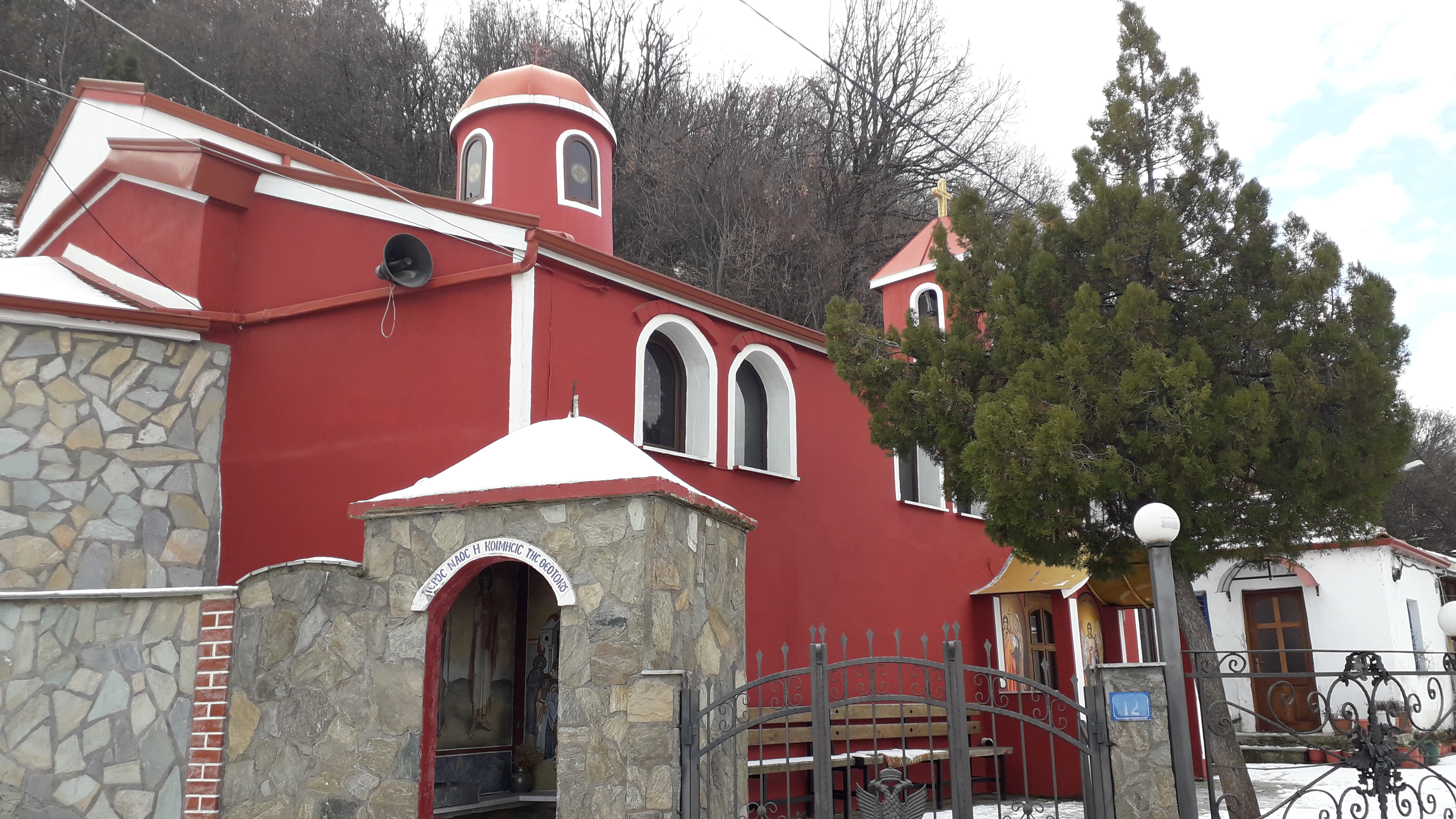 Uspenie Bogorodichno Lerin